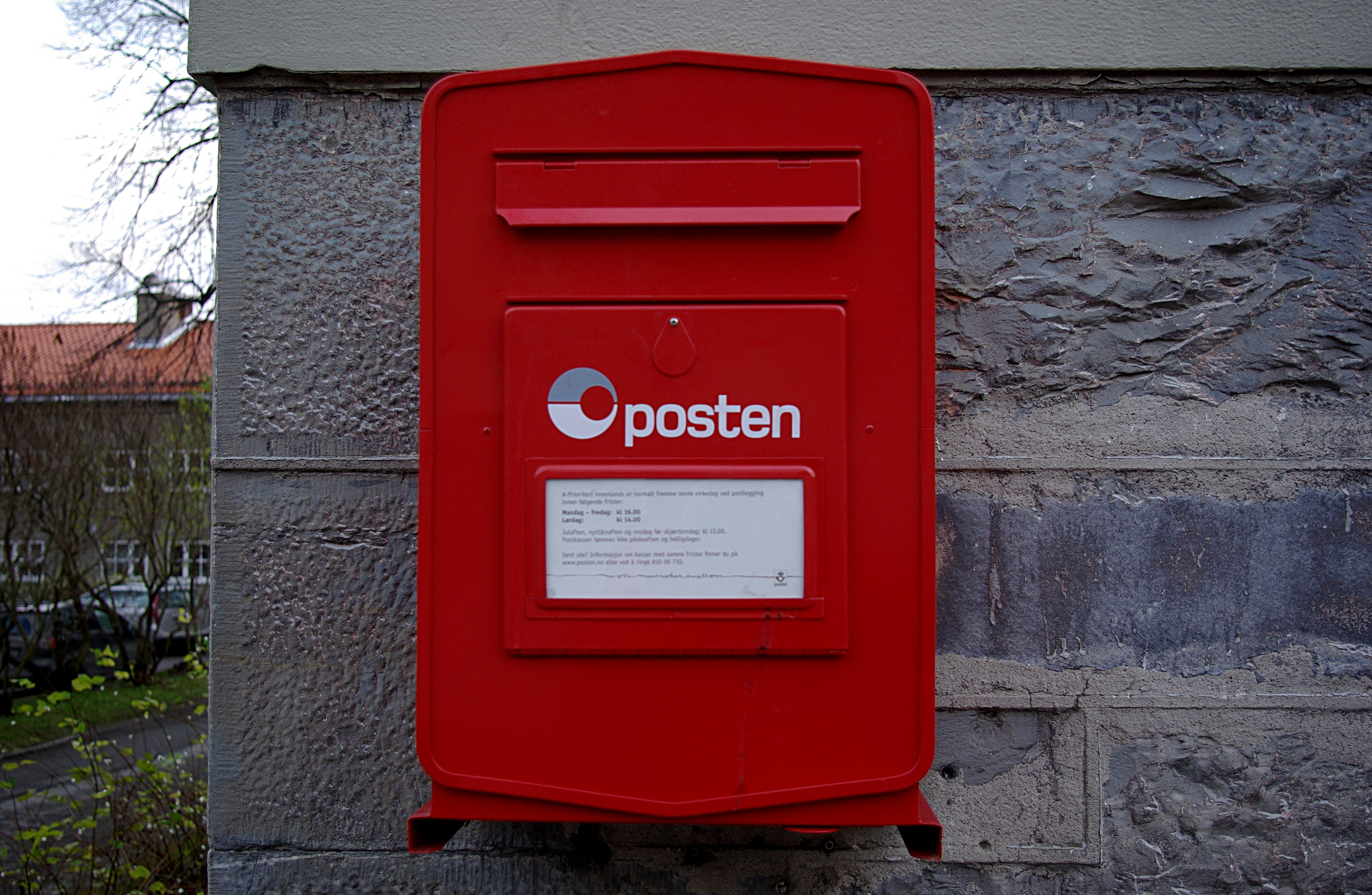 A post box in Trondheim, Norway.